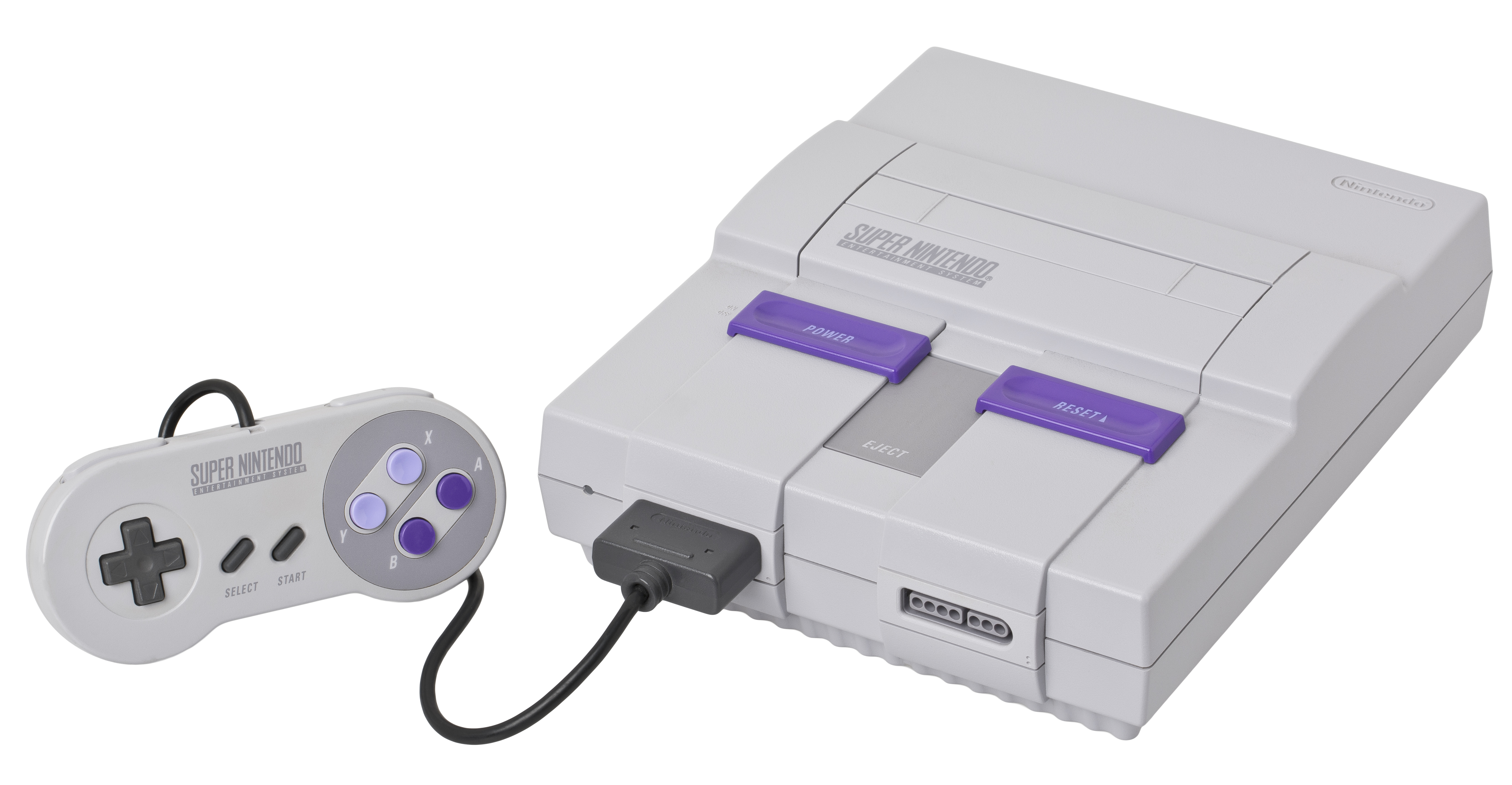 A Super Nintendo Entertainment System (SNES or Super NES) video game console, shown with standard controller.